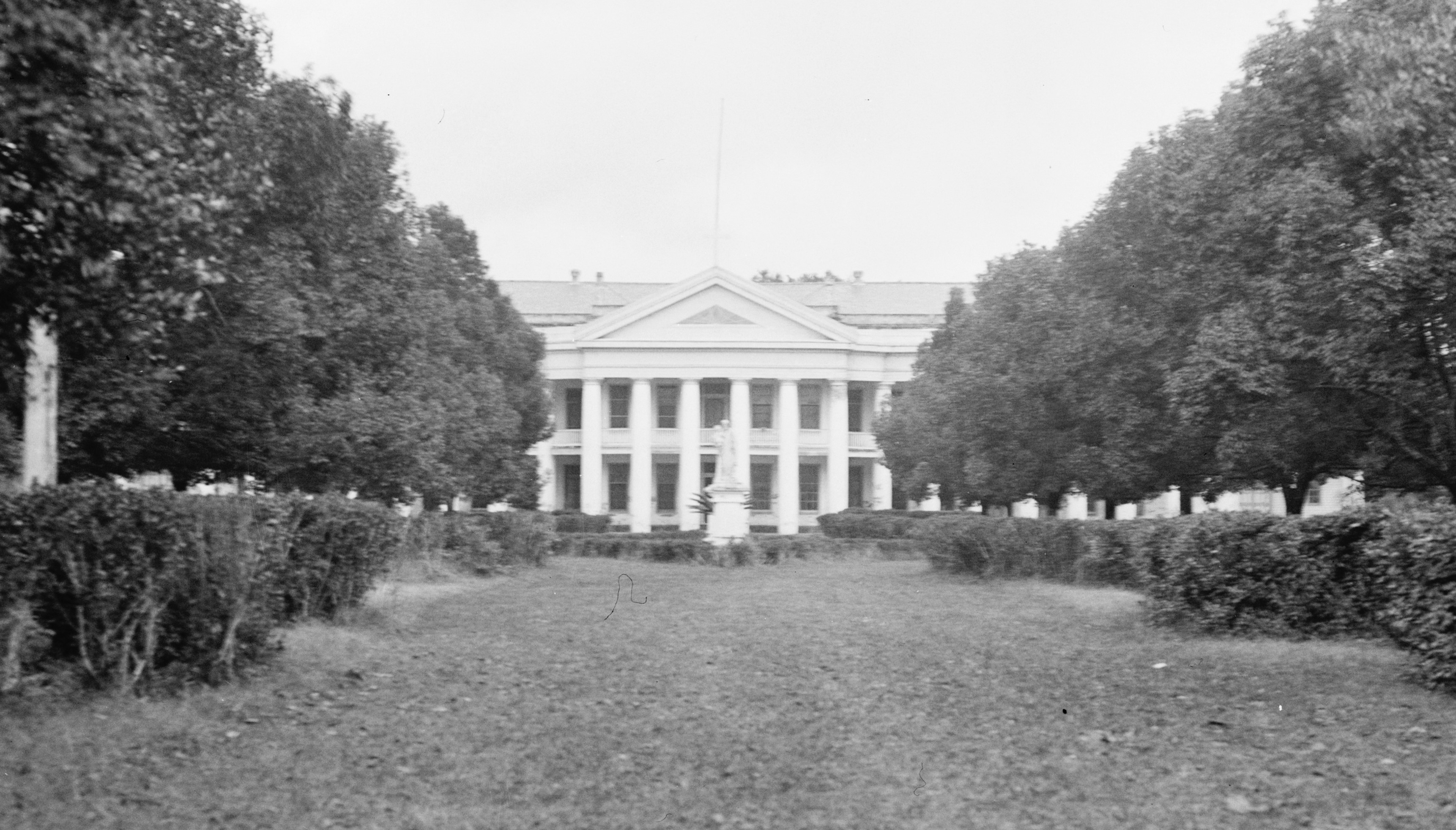 Cropped image of the main Jefferson College building from 1937.